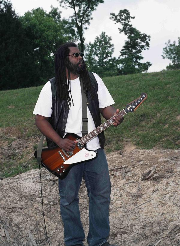 Photo of Alvin Youngblood Hart